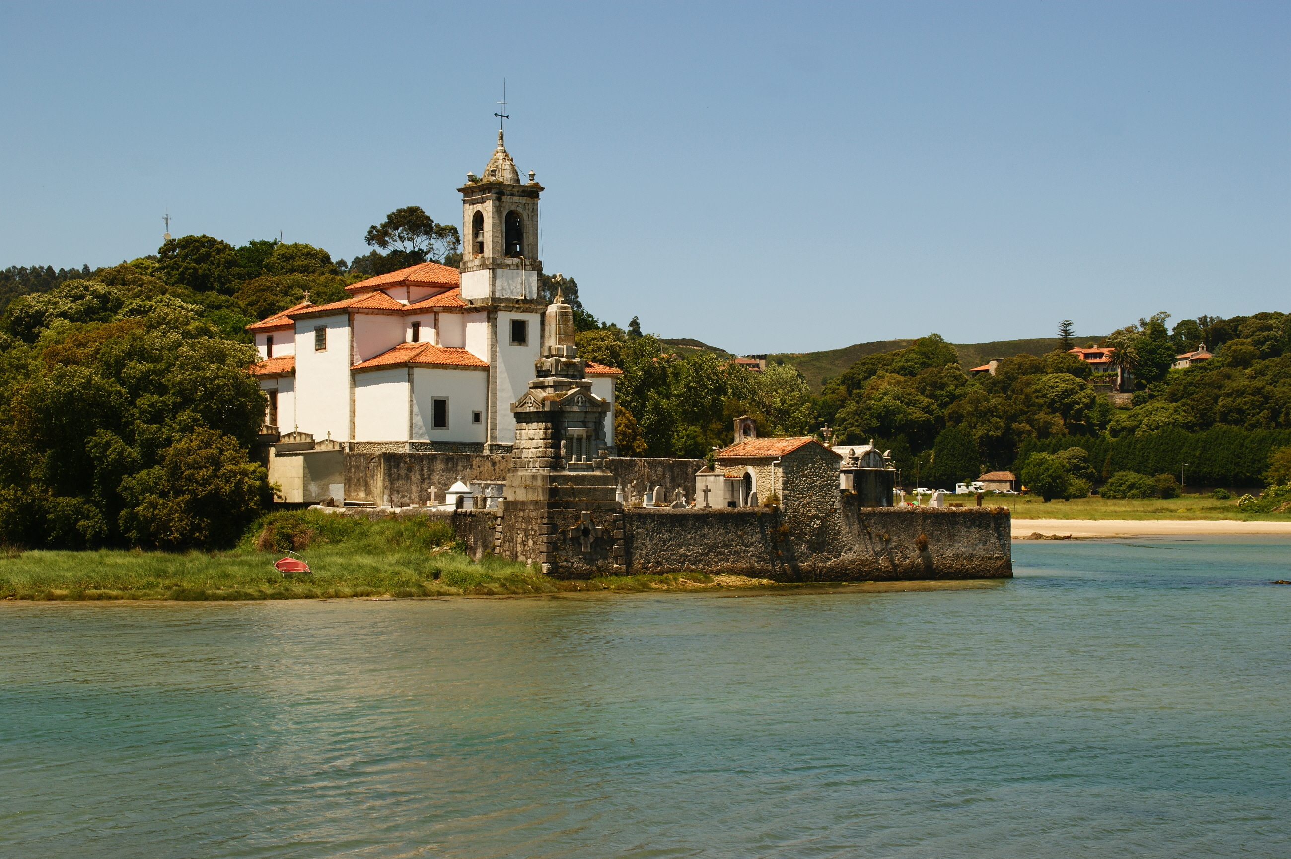 Church at Niembro in Asturias, Northern Spain. It is on a tidal bay.